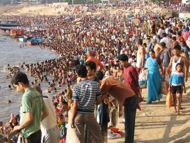 the crowds at the ghats in Varanasi, India, watching the July 22, 2009 total solar eclipse